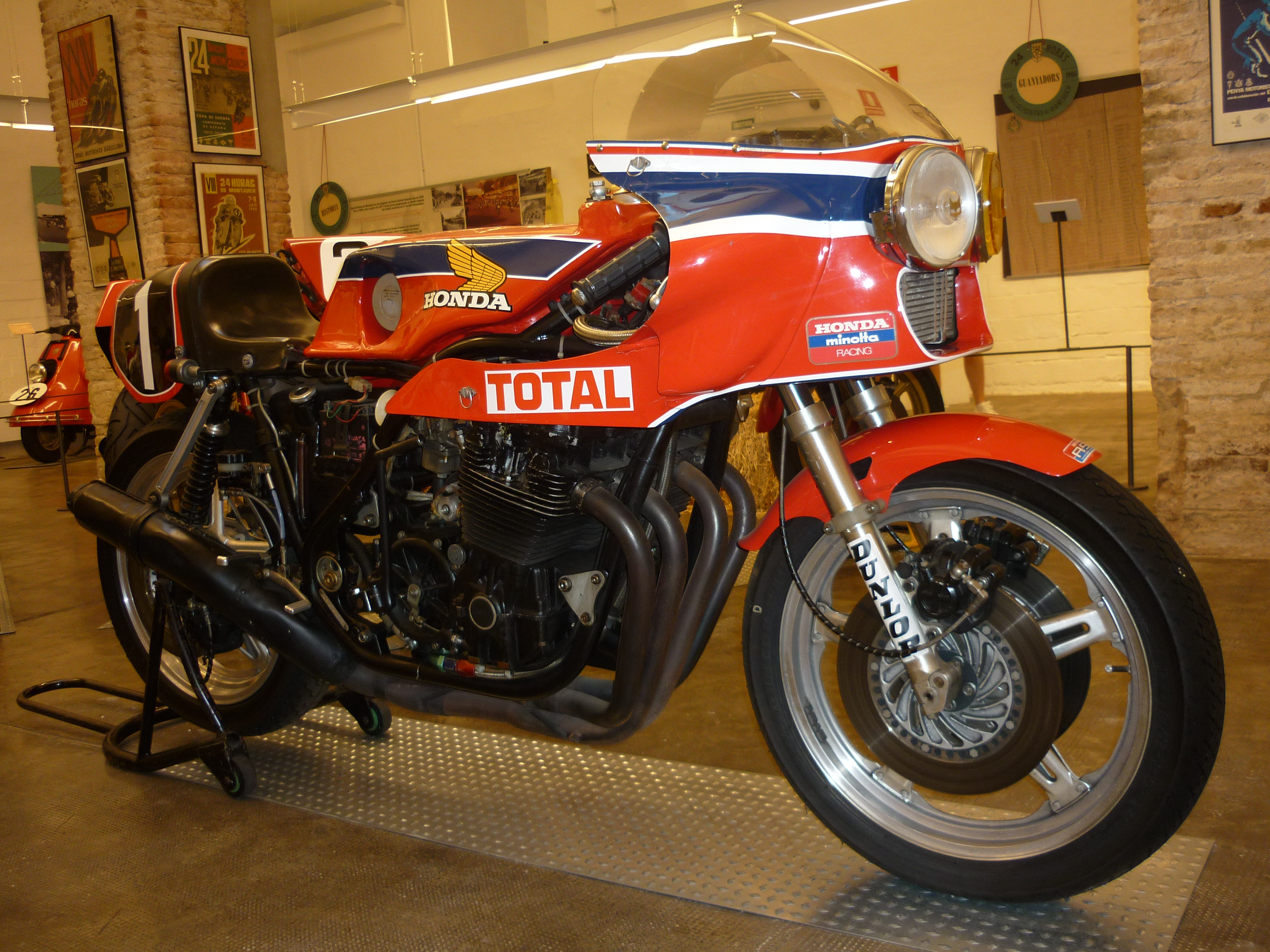 Honda 998 1000cc. On this bike, Christian Léon and Jean-Claude Chemarin won the XXIV 24 Hours of Montjuïc, on 1978